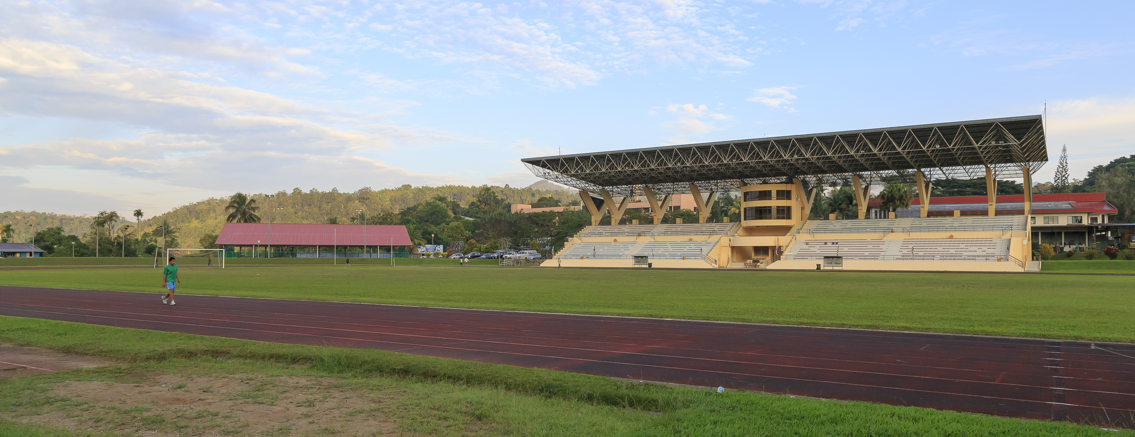 Tambunan, Sabah: Tambunan Sports Complex (Kompleks Sukan Tambunan)